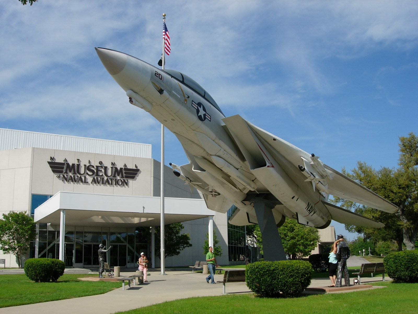 Grumman YF-14A Tomcat '157984' at the entrance to the National Museum of Naval Aviation, Pensacola, FL